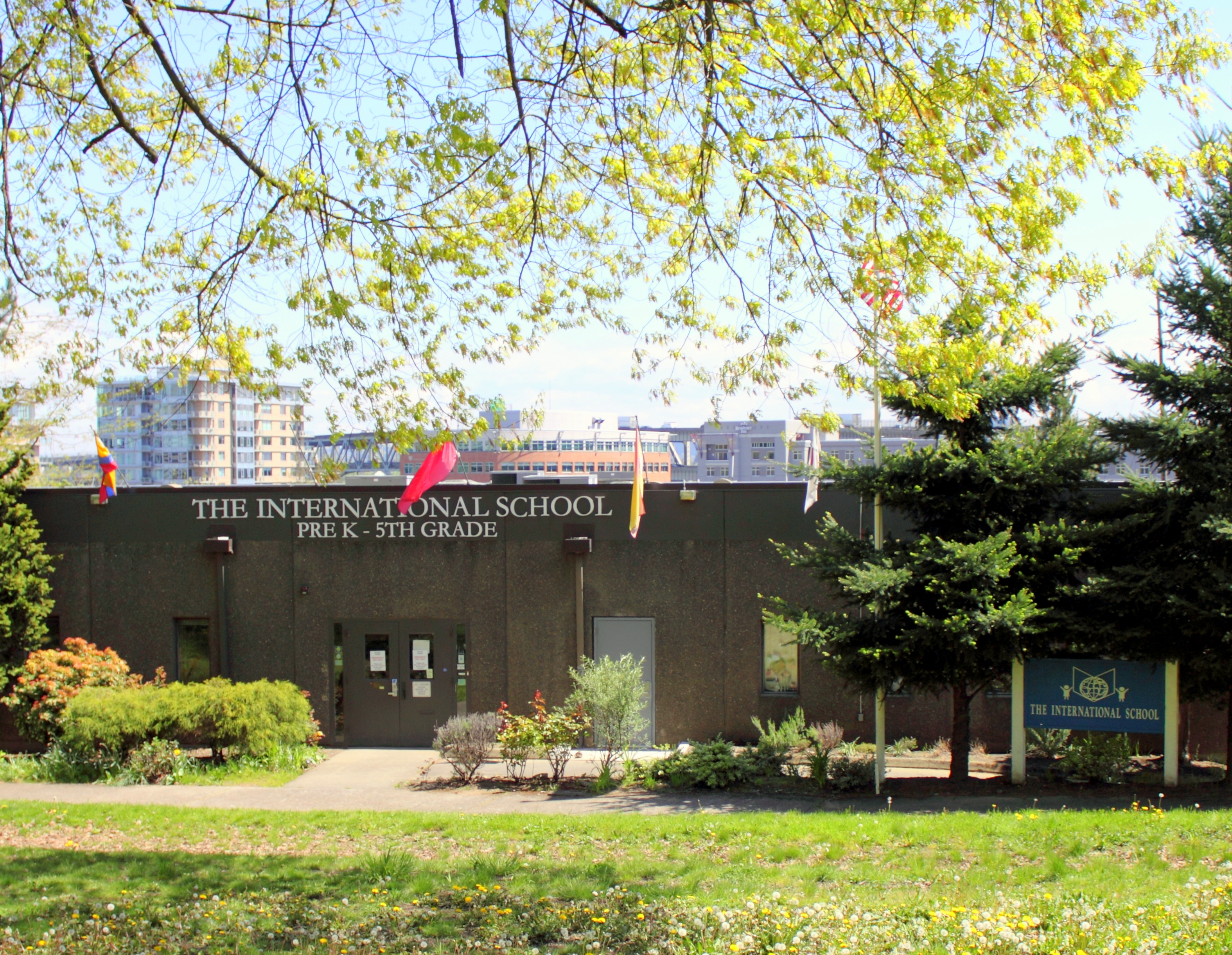 Photo of the exterior of the The International School in Portland, Oregon.